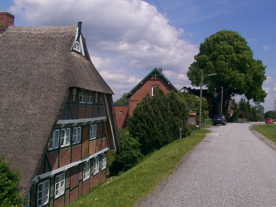 Situation at the old dike at Hamburg-Altengamme, Germany